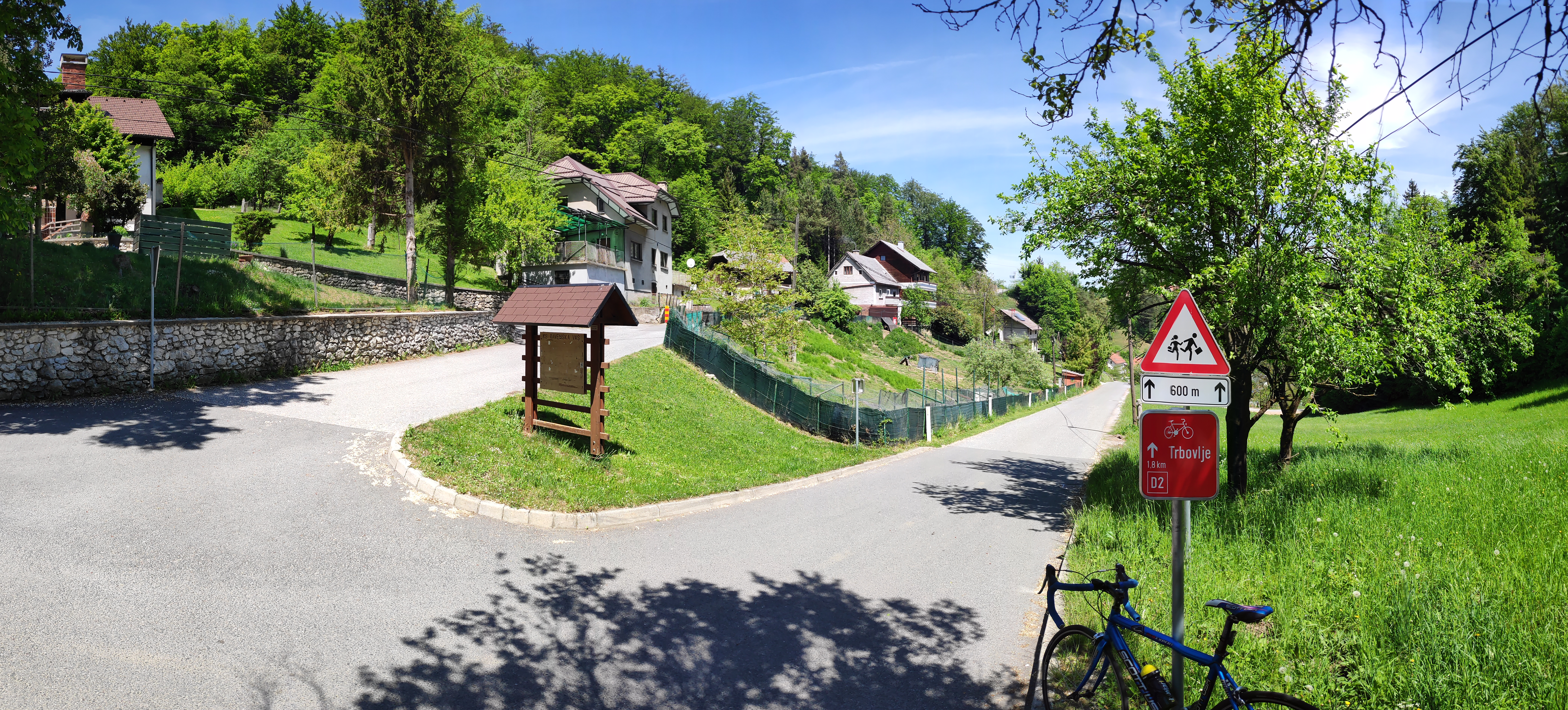 Ravenska vas (Zagorje ob Savi)